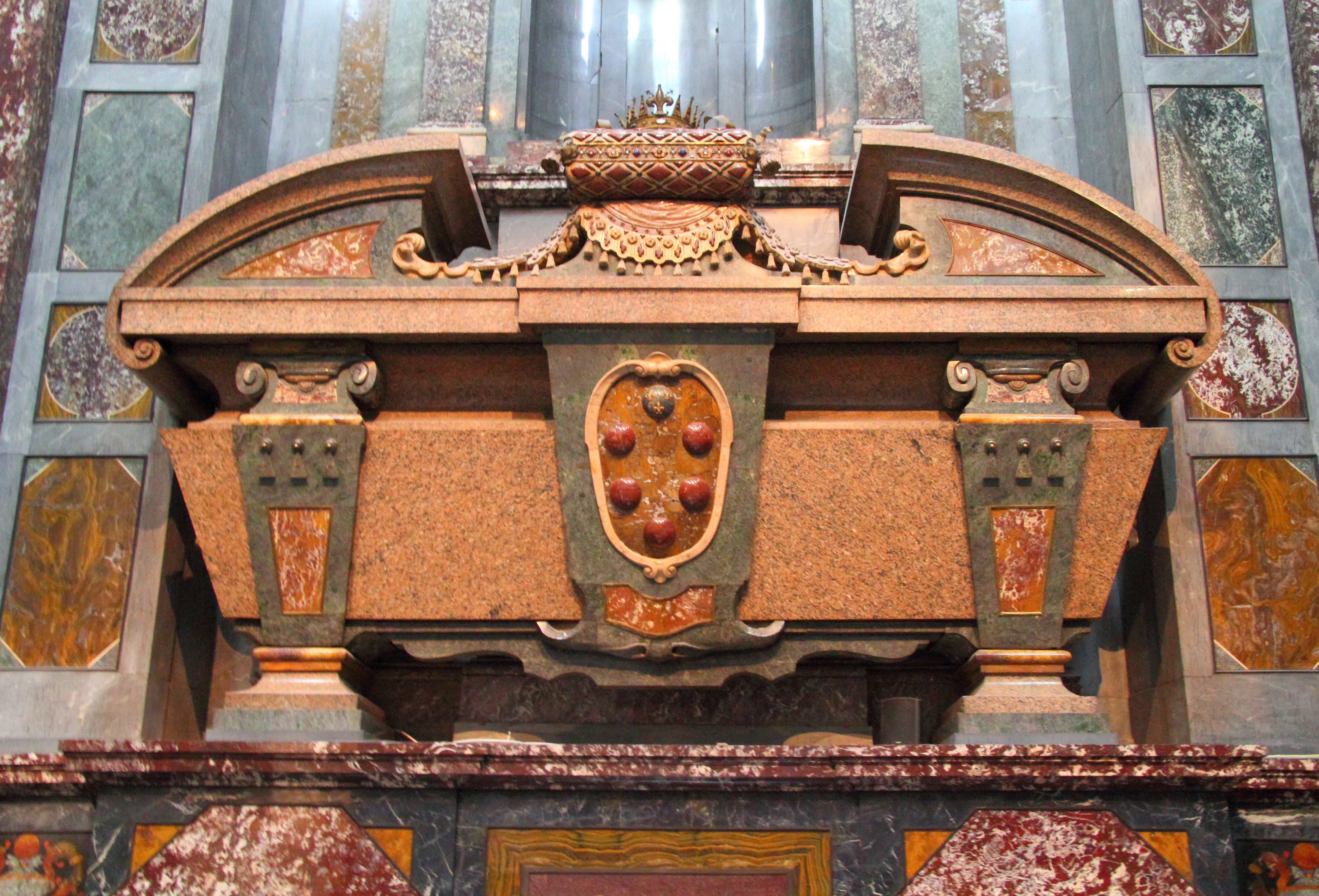 Florence, Italy: Capella dei Principi (Chapel of the Princes) at the church of San Lorenzo